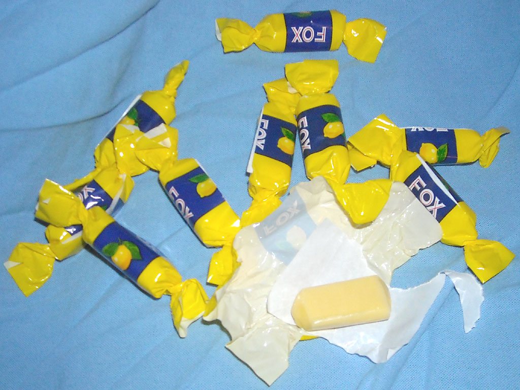 FOX citron. Swedish candy, lemon taste.